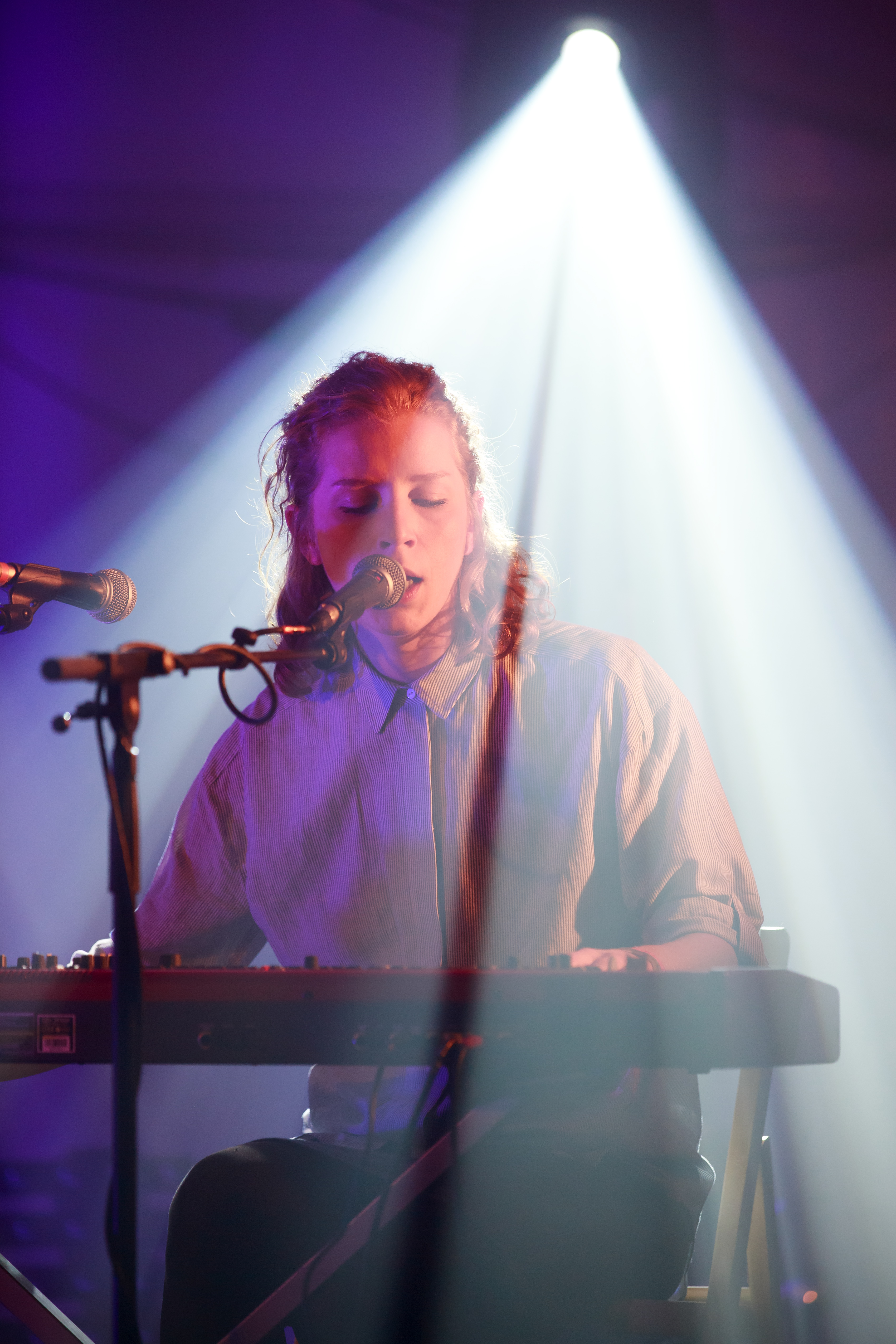 Alina Orlova, concert at Waves Vienna 2015 (Vienna, Austria).